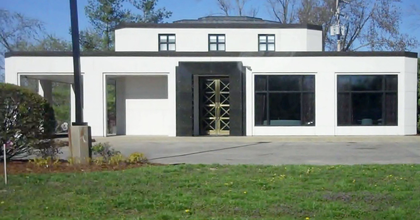 The Meade County Bank in Muldraugh, KY. Taken on April 6, 2011.